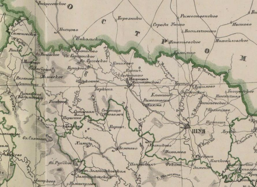 Map of Shuyskiy uezd